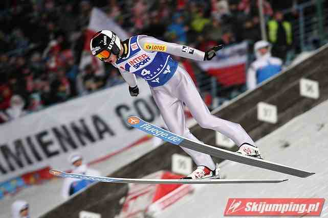 Tomasz Byrt during friday competion of FIS Ski Jumping World Cup in Zakopane, 2012